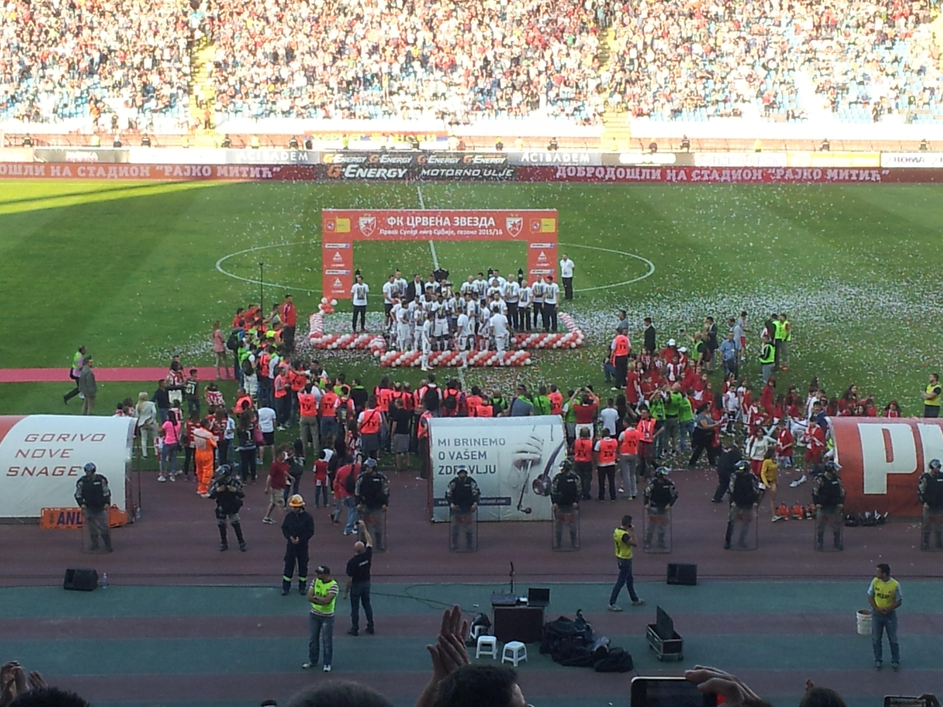 FC Red Star-champs of Serbia 2016.